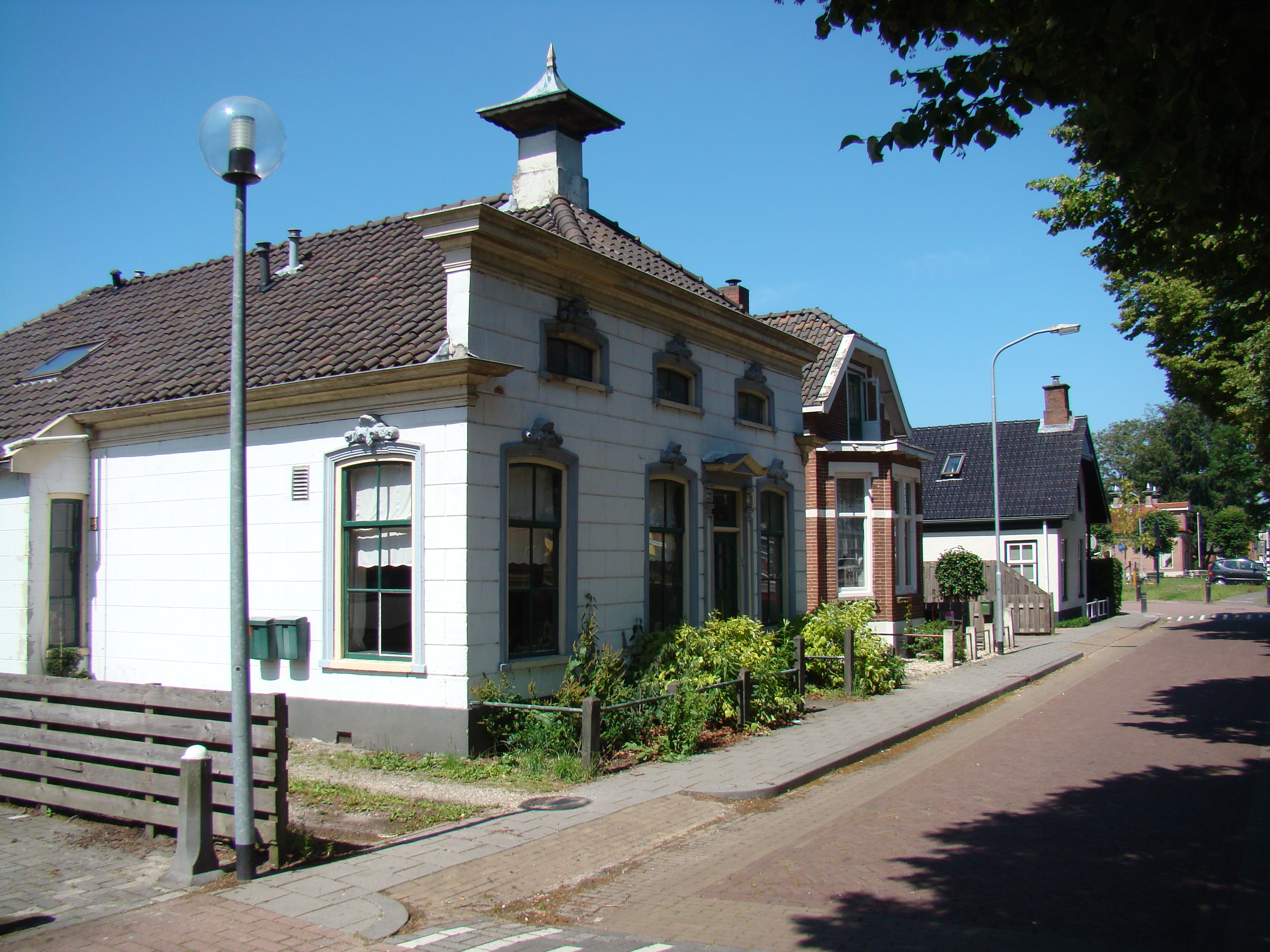 Impressions of Stadskanaal (Netherlands)